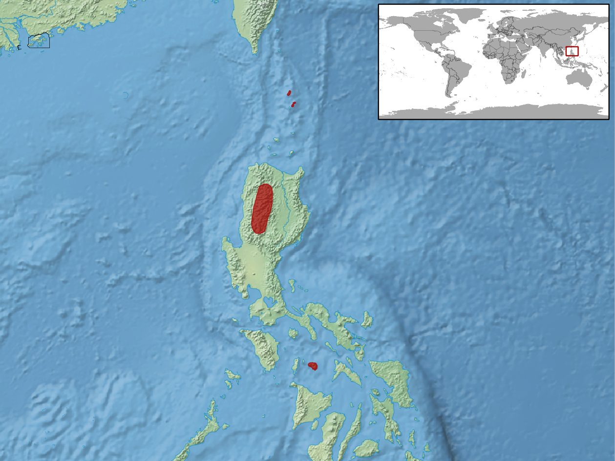 geographic distribution of Bronchocela marmorata (Native: Philippines)